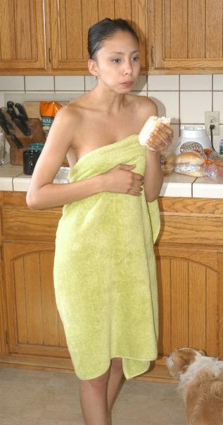 Alexis Love on set of Barely Legal 75, May 18, 2007